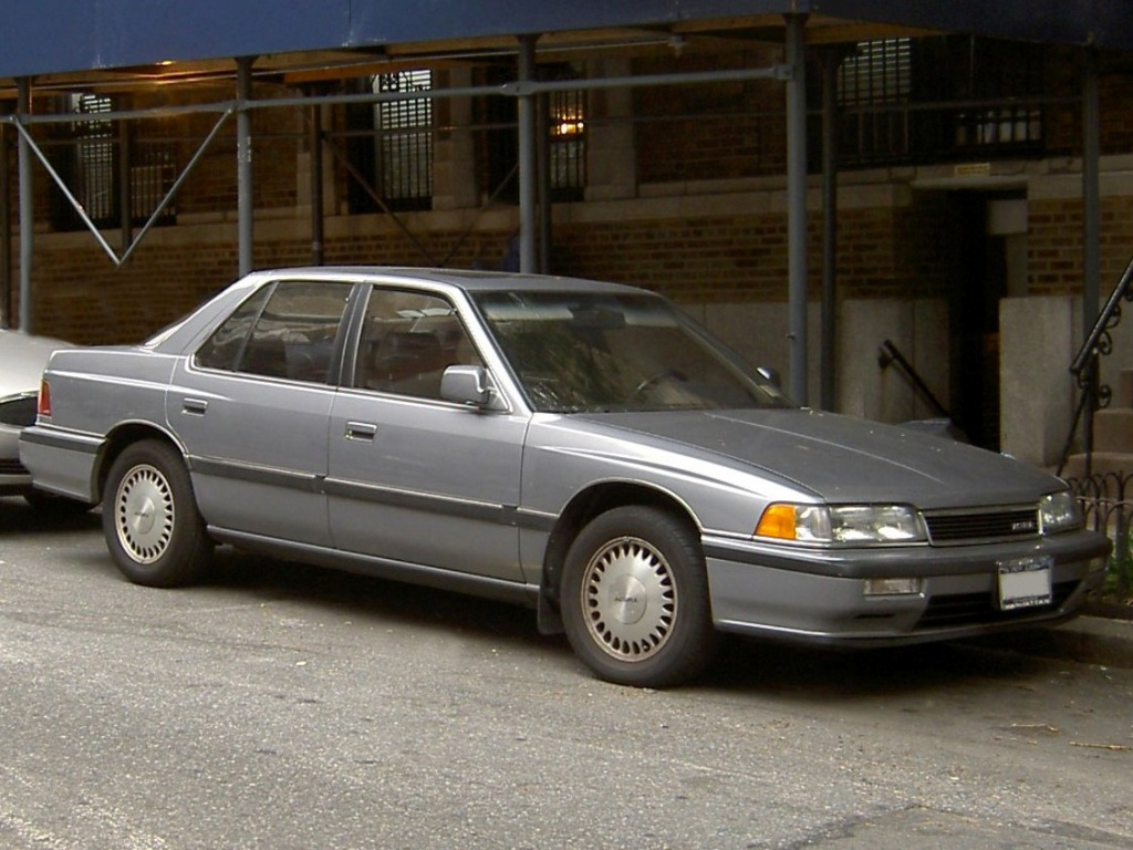 The first generation of Acura Legend photographed in New York City in 2007